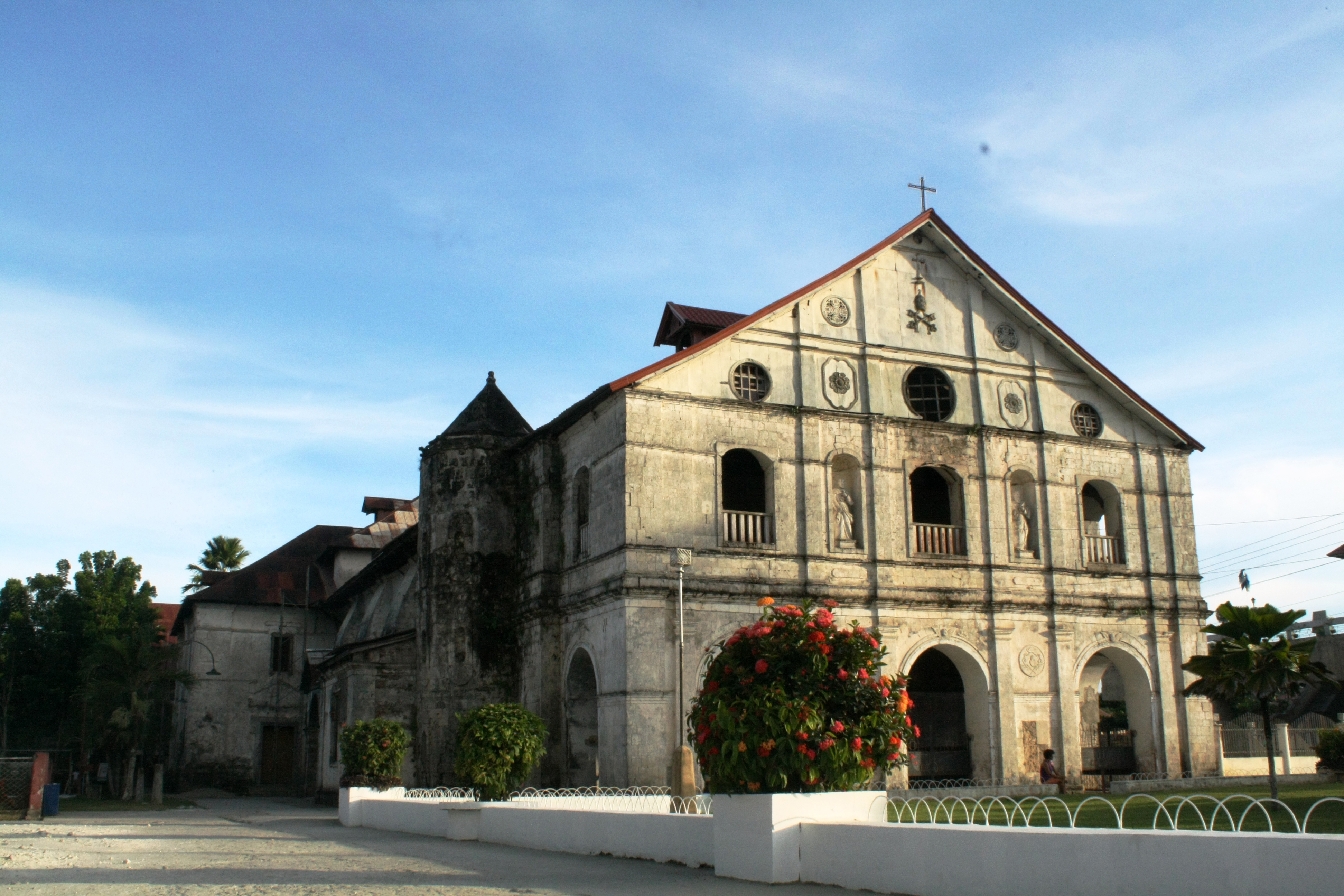 facade of the Church of San Pedro in Loboc, Bohol